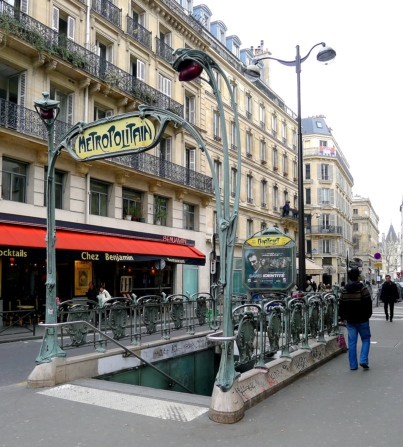 Chatelet, metro station - Paris